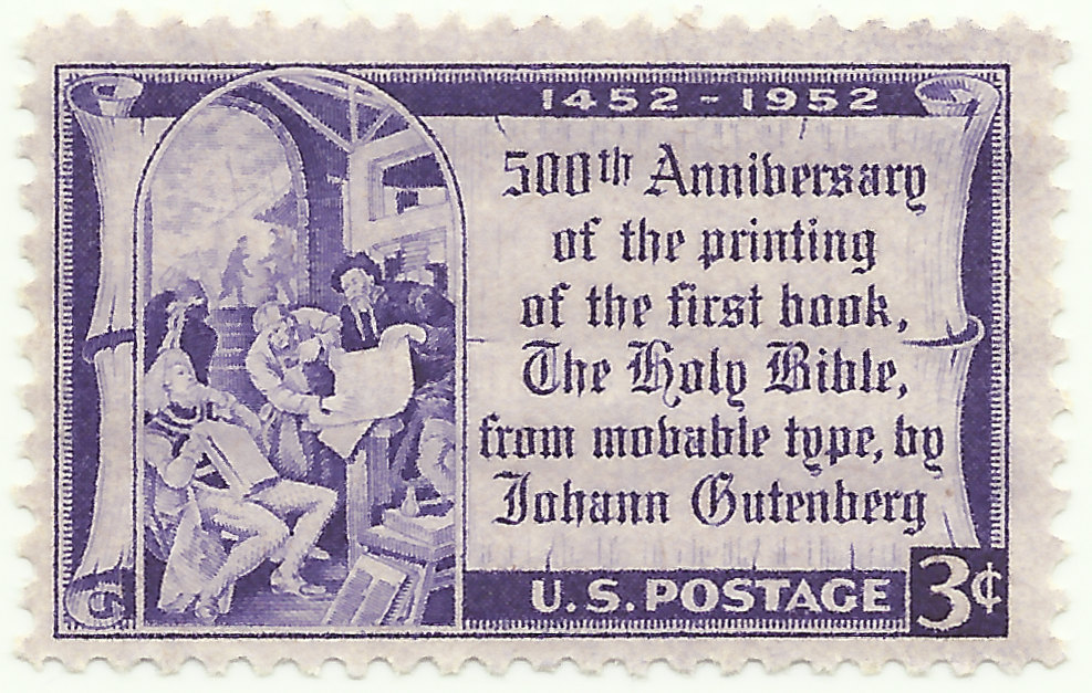 Image of the 500th anniversary of the printing of the first book, The Holy Bible, by Johannes Gutenberg who invented the moveable-type press